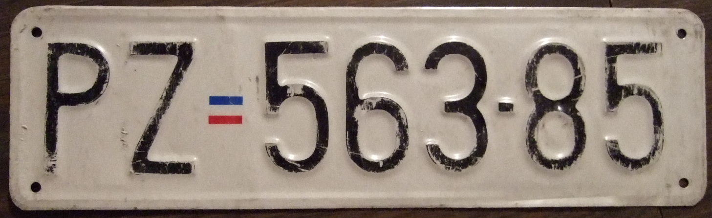 License plate from the Federal Republic of Yugoslavia issued with the national flag since 1992, PZ = Prizren, Kosovo